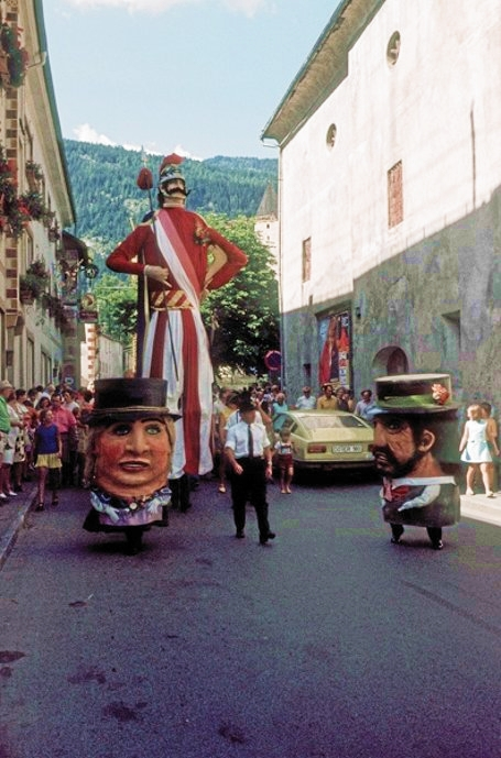 Samson parade at Mauterndorf/Austria about 1980